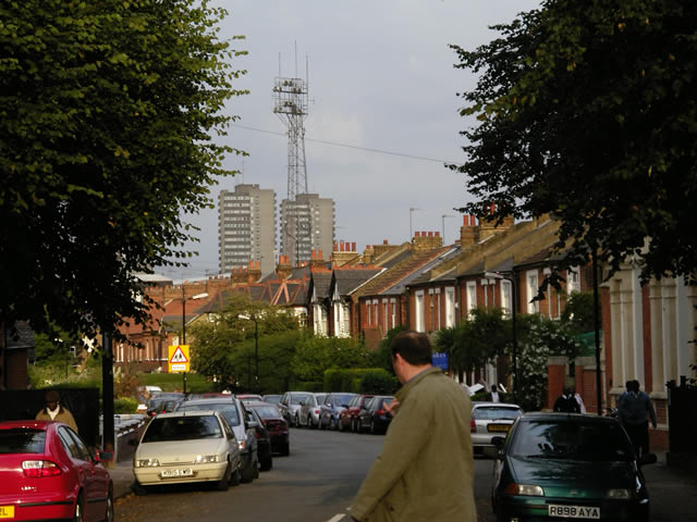 Clifden Road, Brentford. Looking eastwards down Clifden Road, Brentford. The cream pillars on the right are the entrance to a disused Victorian swimming pool. The floodlight is at Brentford FC's Griffin Park. On the horizon, two of the landmark Brentford towers.